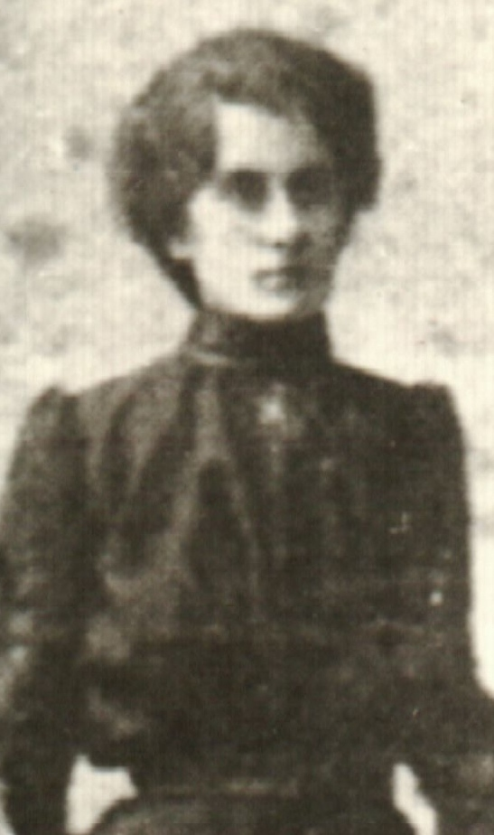 Socialistic class in Bulgaria - Peyo Yavorov, Tsanko Tserkovski, Dimitar Dimitrov, prof. Iliya Yankulov, Evgeniya Dimitrova.